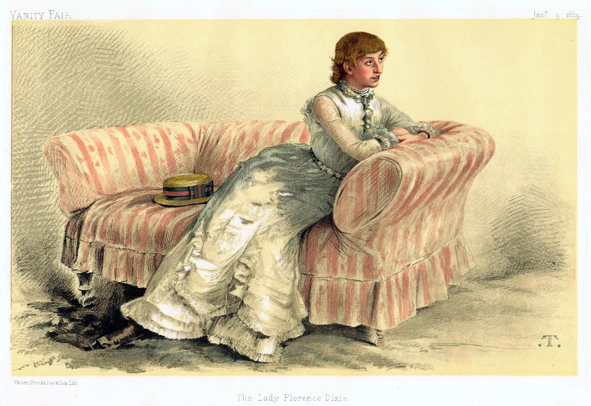 Portrait of Lady Florence Dixie (1857–1905), maiden name Lady Florence Douglas